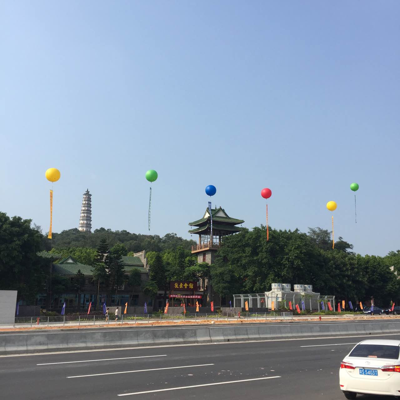 The pavilion in the Liuhua Park in Dongguan city